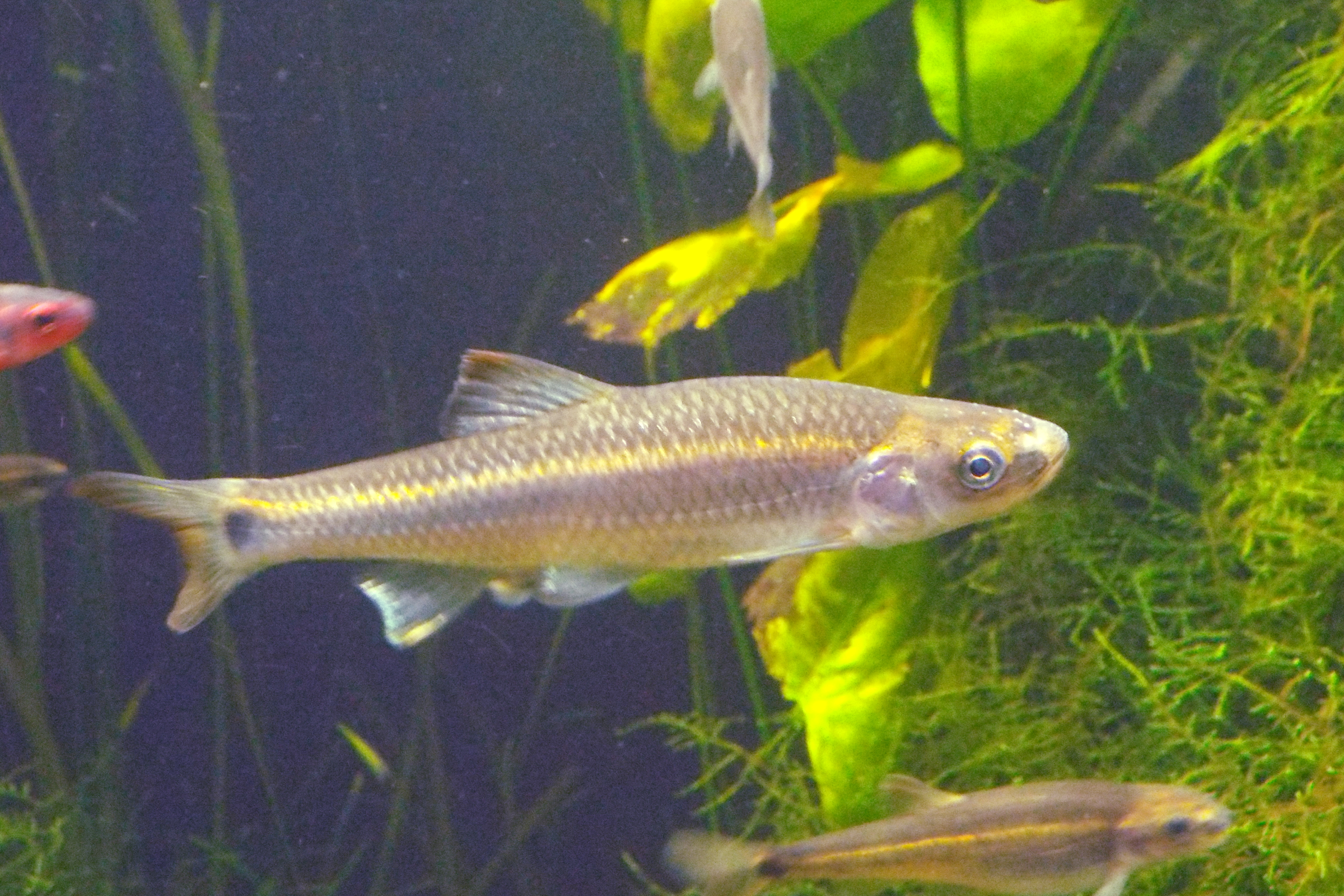 Notropis stilbius in the Tennessee Aquarium in Chattanooga, TN